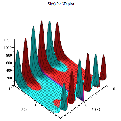 Si(x) Re complex 3D plot